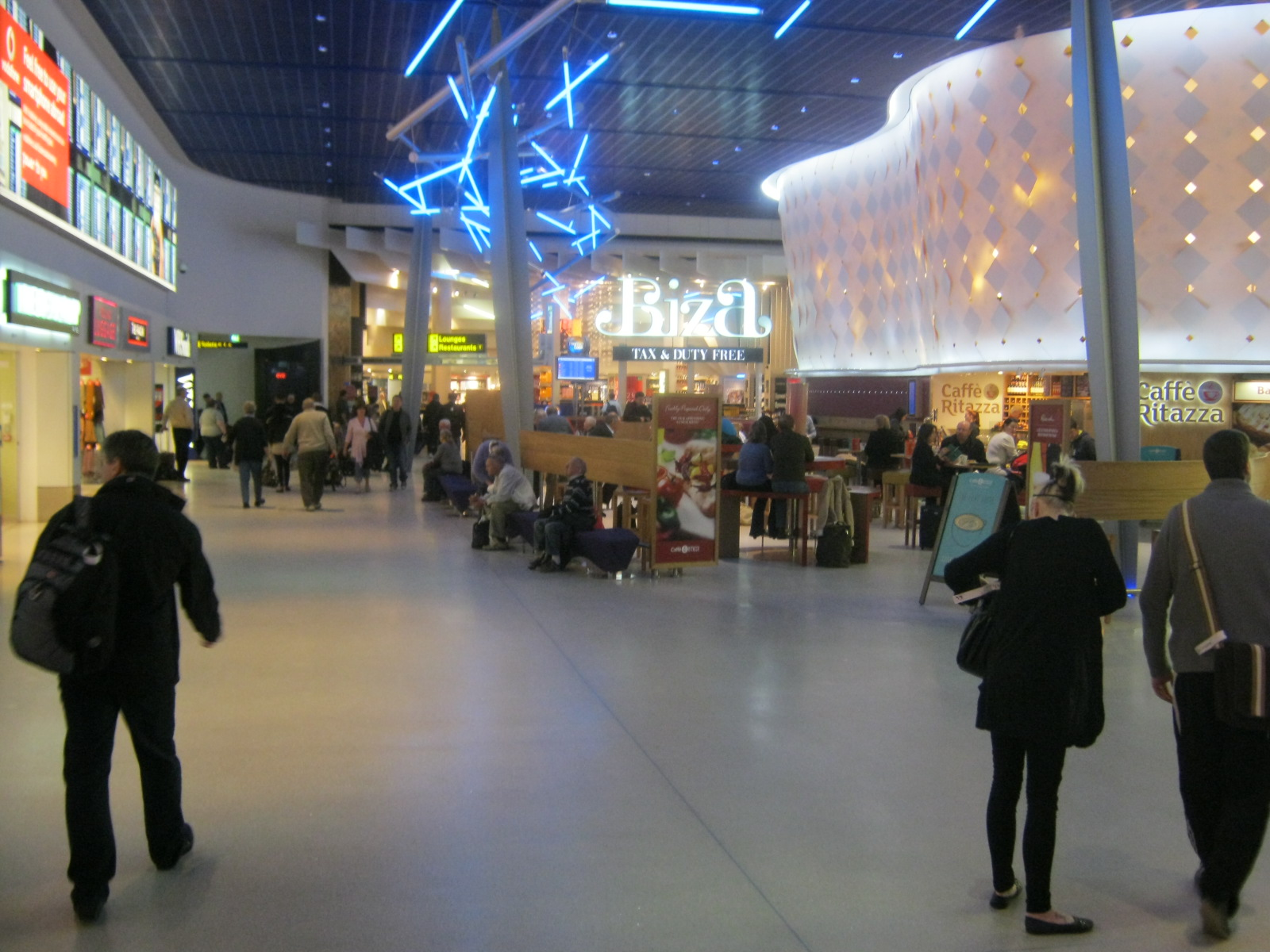 One of the Departure Halls at Manchester Terminal 1